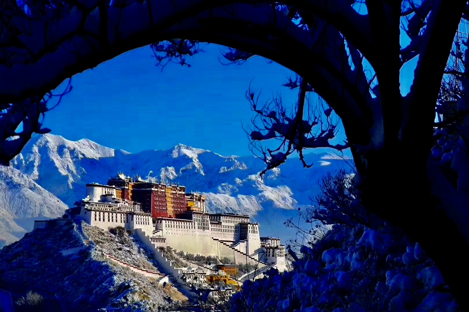 Tibet Potala Palace Is one of the most amazing palaces in the world.